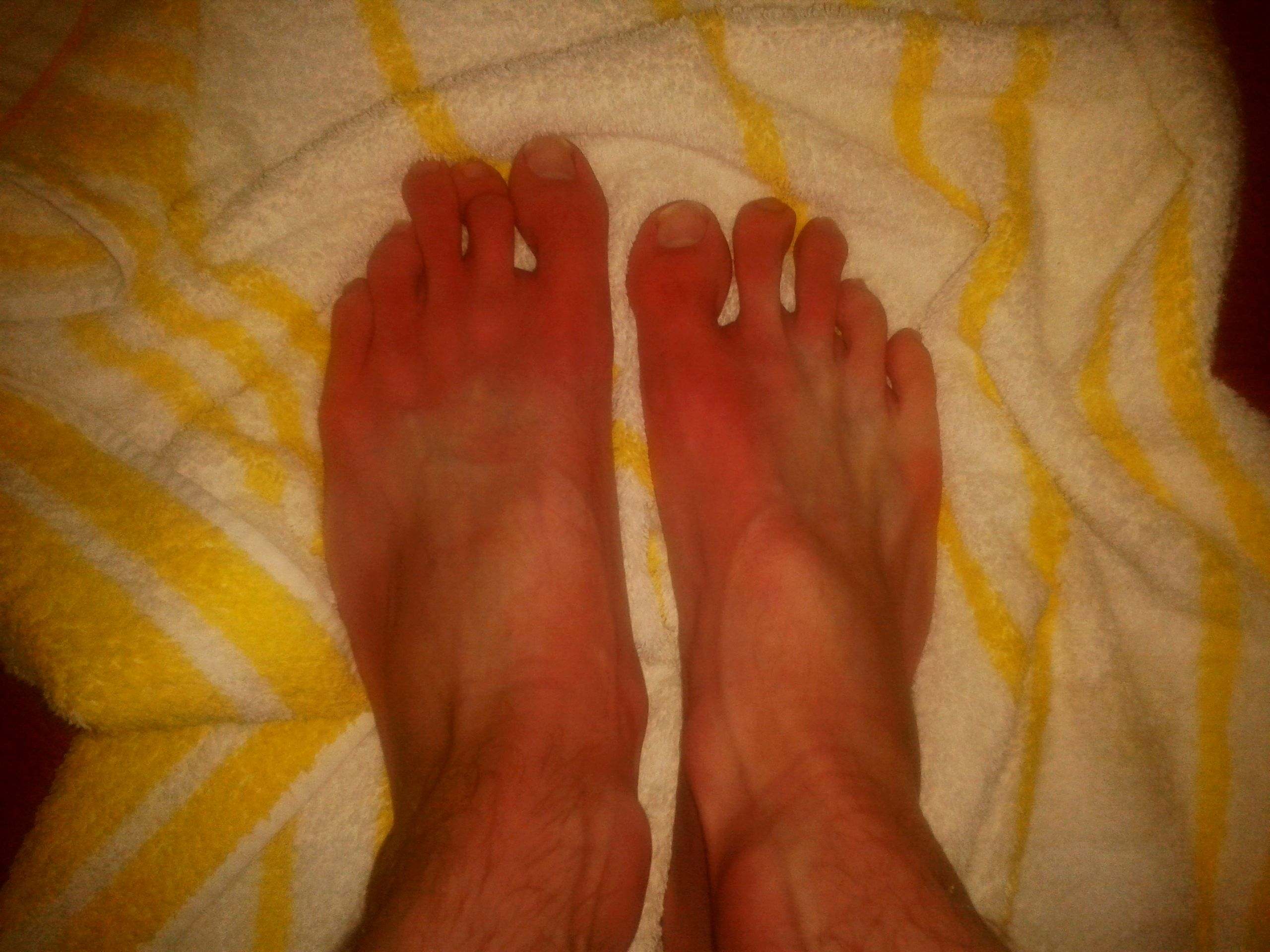 Erythromelalgia flaring at feet